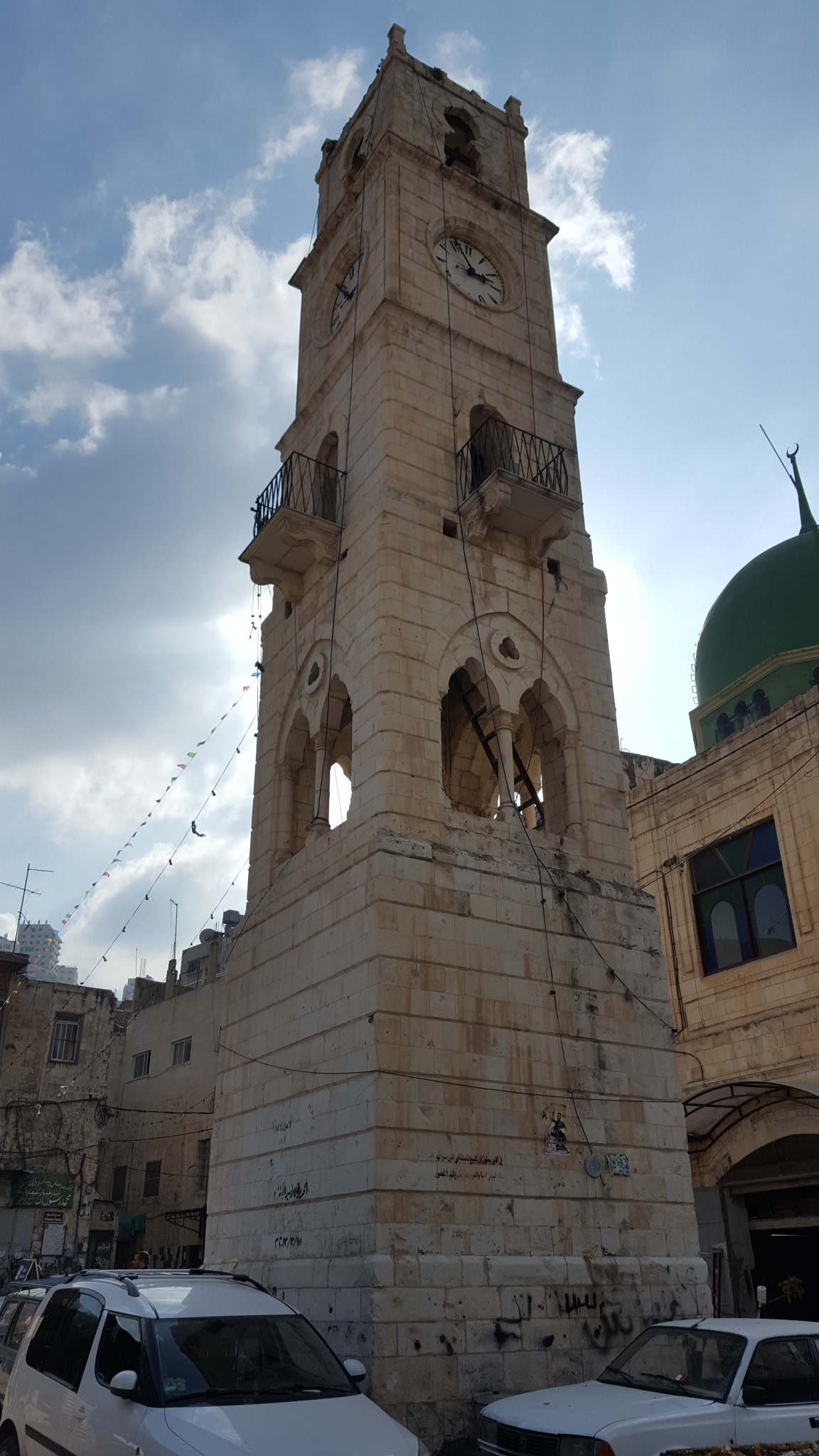 Manara Clock Tower in Nablus city, West Bank, Palestine.